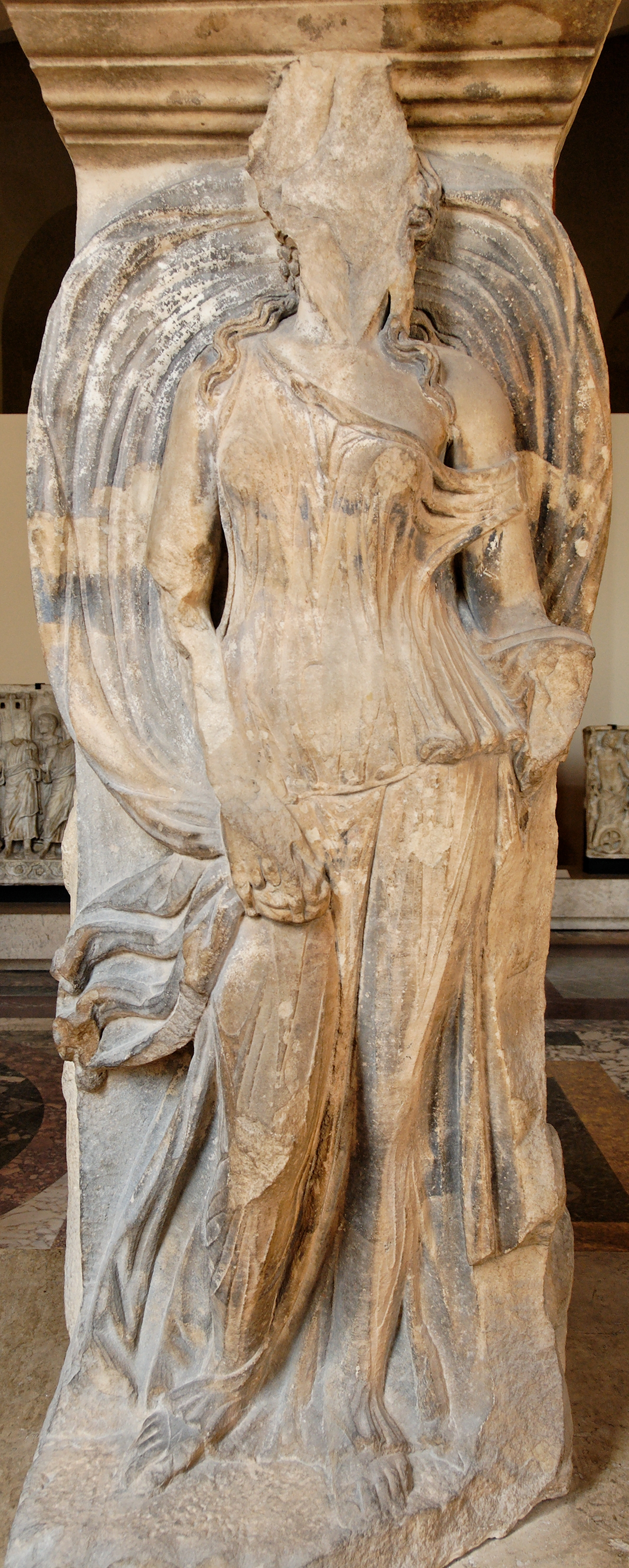 Aura (Breeze), side A of a caryatid from a portico known as “Las Incantadas”. Marble, Greek artwork, late 2nd century CE–early 3rd century CE. From the agora of Salonica, ancient Thessalonike.